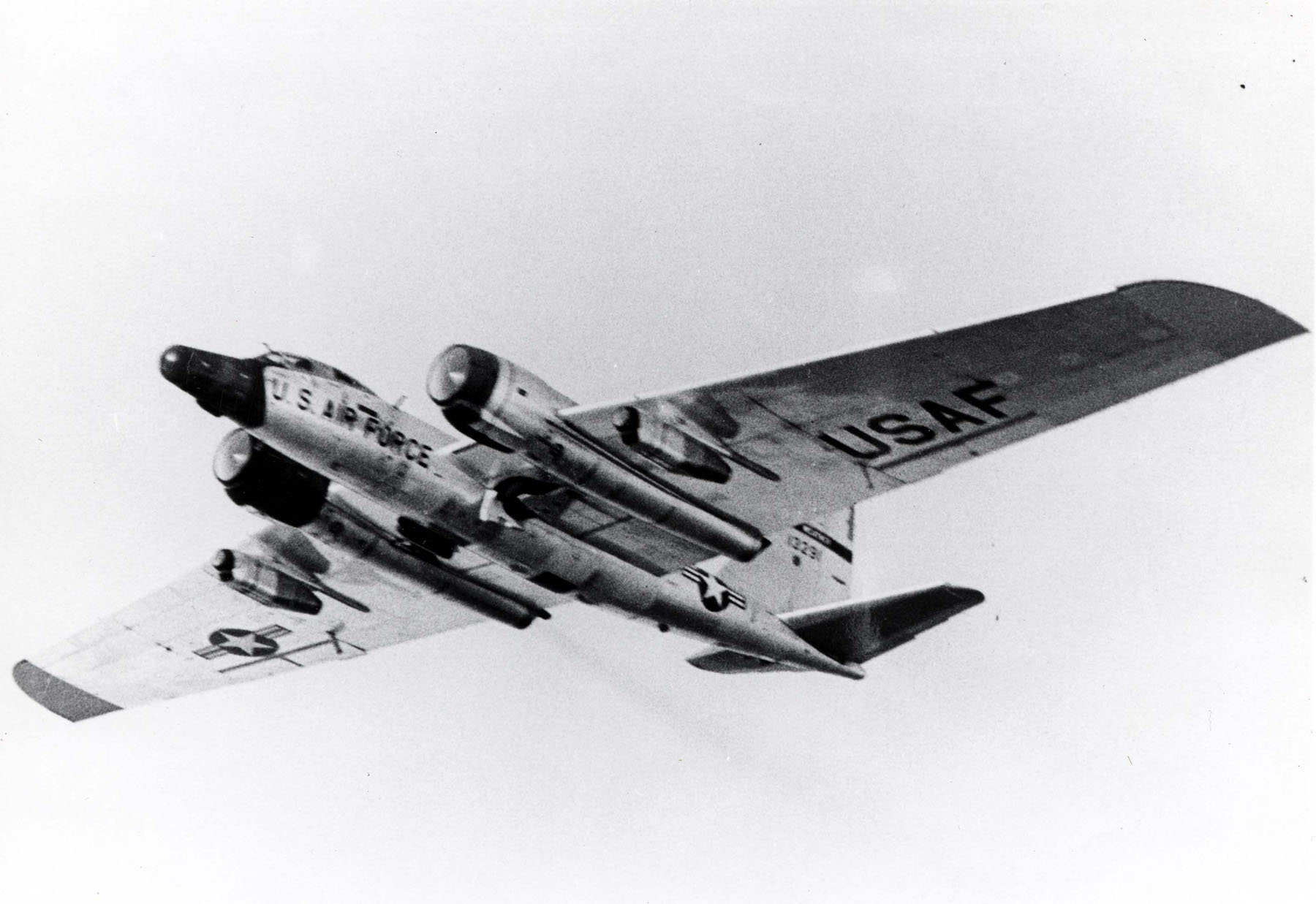 General Dynamics RB-57F Canberra take off (SN 63-13291)